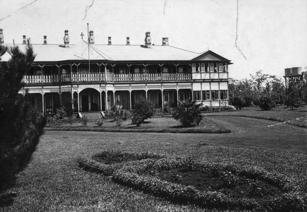 Circular drive in front of Glennie School, Toowoomba, ca. 1925. The original school building was completed in 1910 and the architects was H.J. Marks.